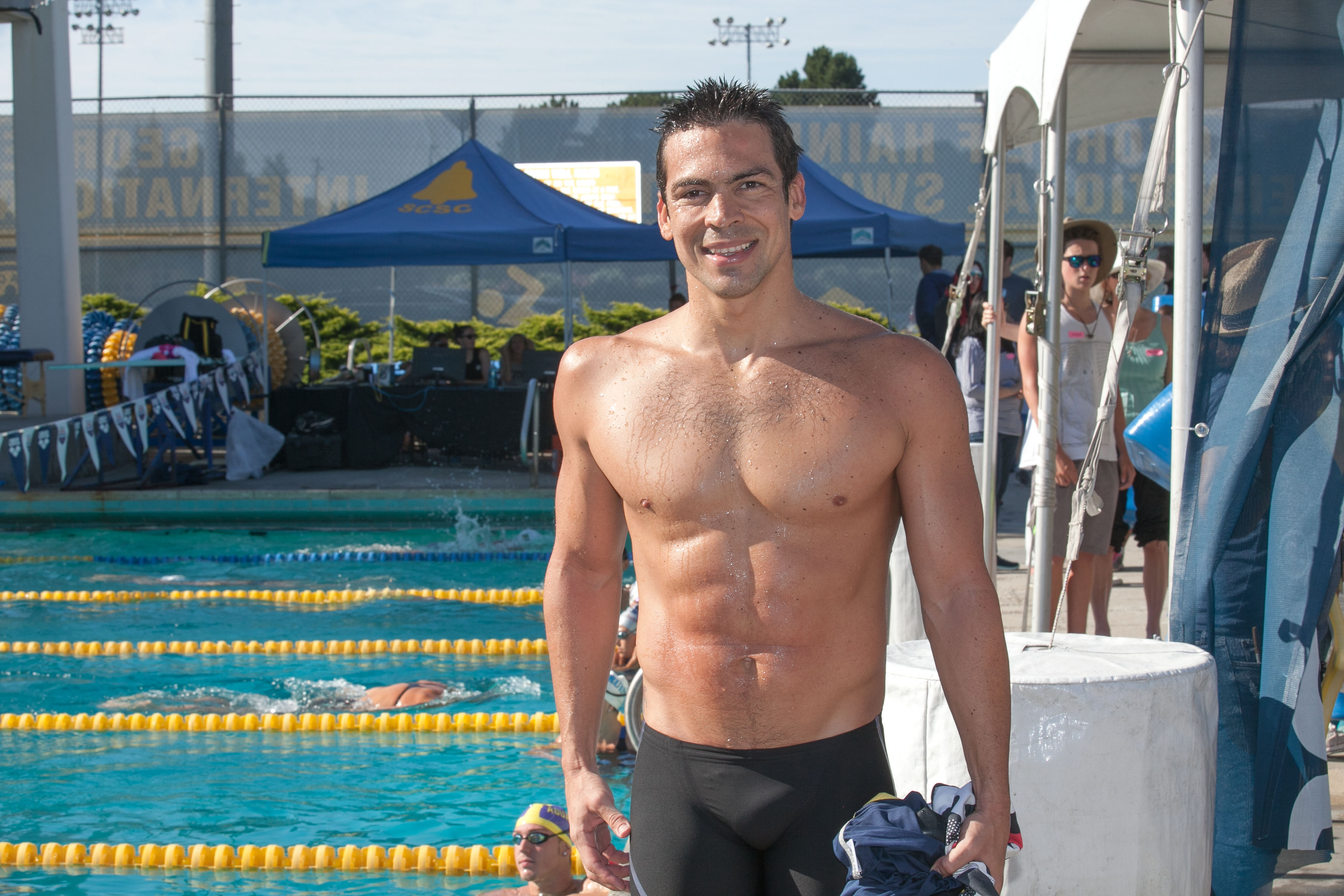 Kaio Almeida after winning 200m butterfly